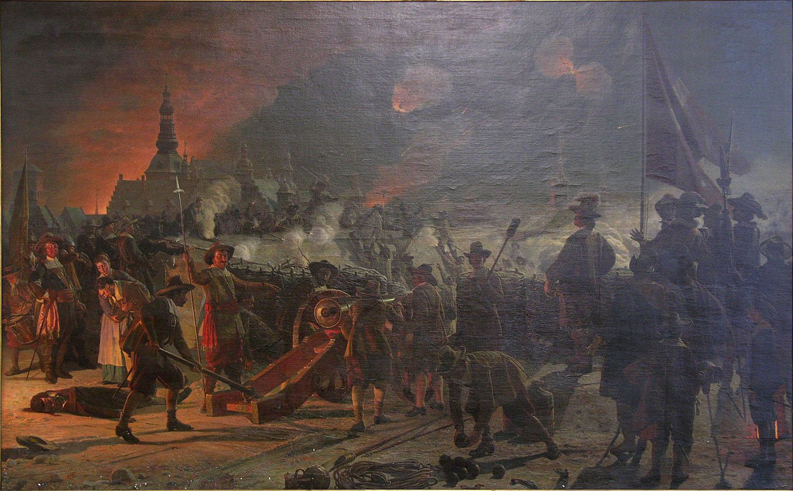 Assault on Copenhagen, February 11, 1659. - Stormningen av Köpenhamn 11 feb. 1659